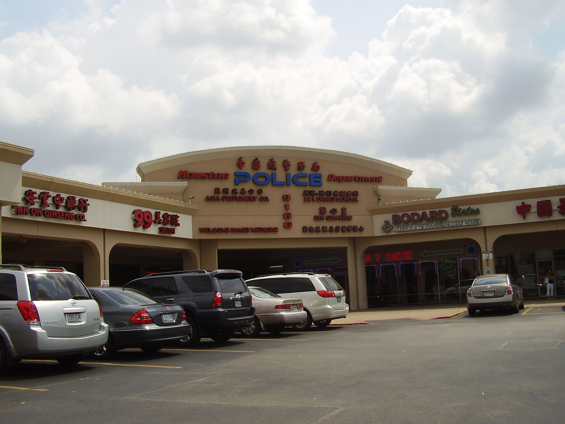 Ranchester Police Storefront (T: 中國城警察局, S: 中国城警察局, P: Zhōngguóchéng Jǐngchájú "Chinatown Police Station") - Diho Square - 9160 Bellaire Boulevard